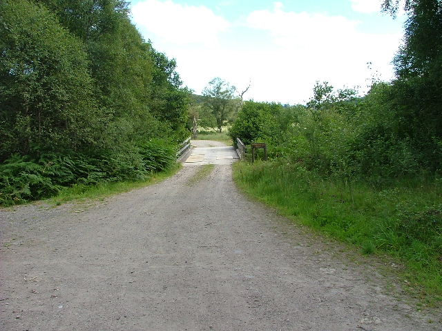 Bridge over The Errochty Water. This bridge is at the start of the track leading into Tummel Forest